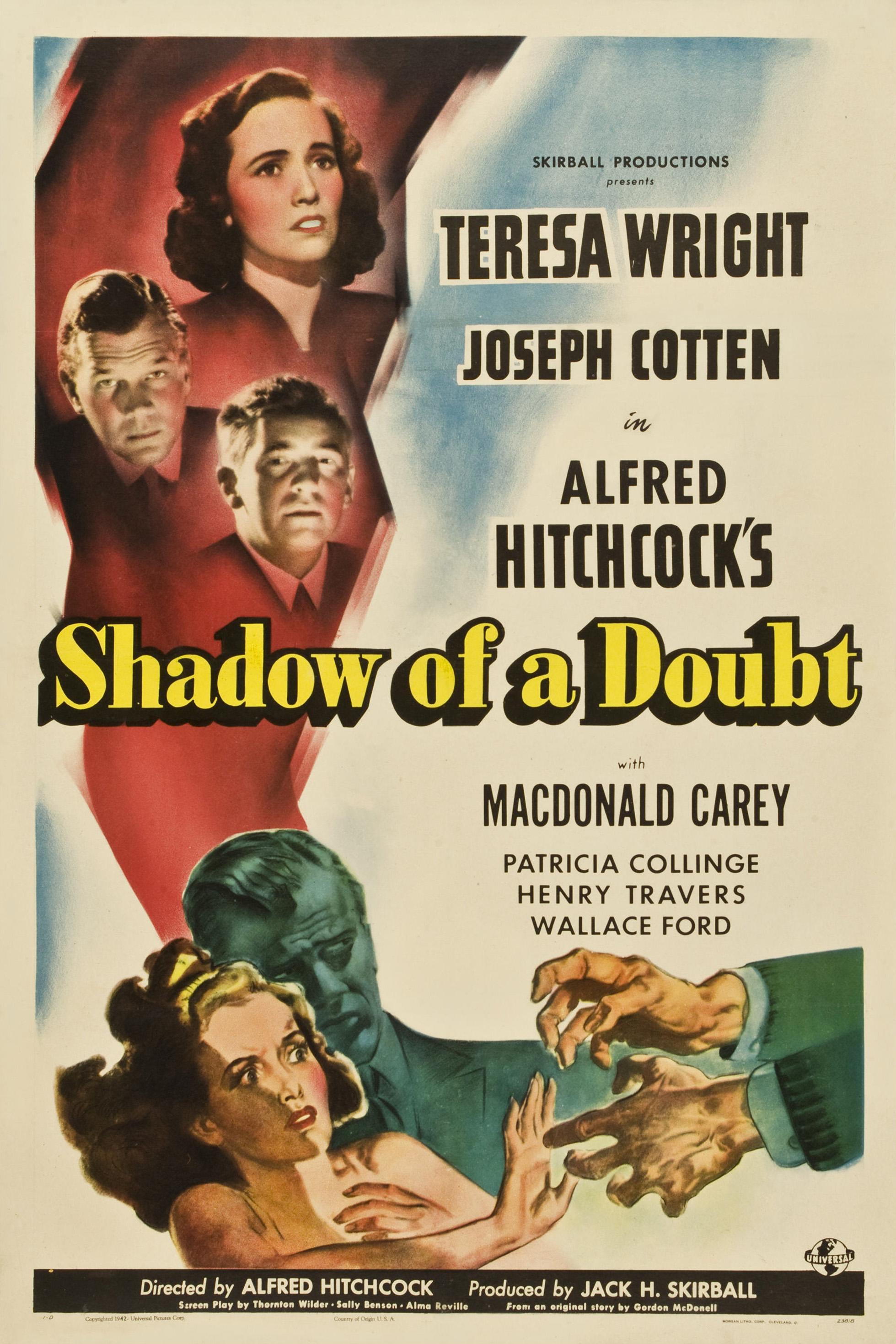 Alternate "Style D" theatrical poster for the American release of the 1943 film Shadow of a Doubt.